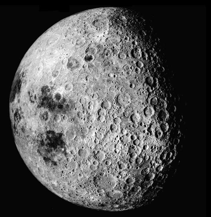 The far side of the moon. This side is more exposed to meteoroids than the near side, and thus is more cratered.